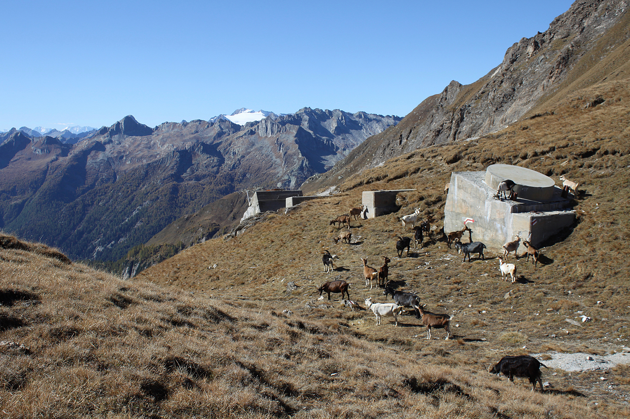 Remains of the Ofima material ropeway Rodi-Sambuco on the Campolungo pass.